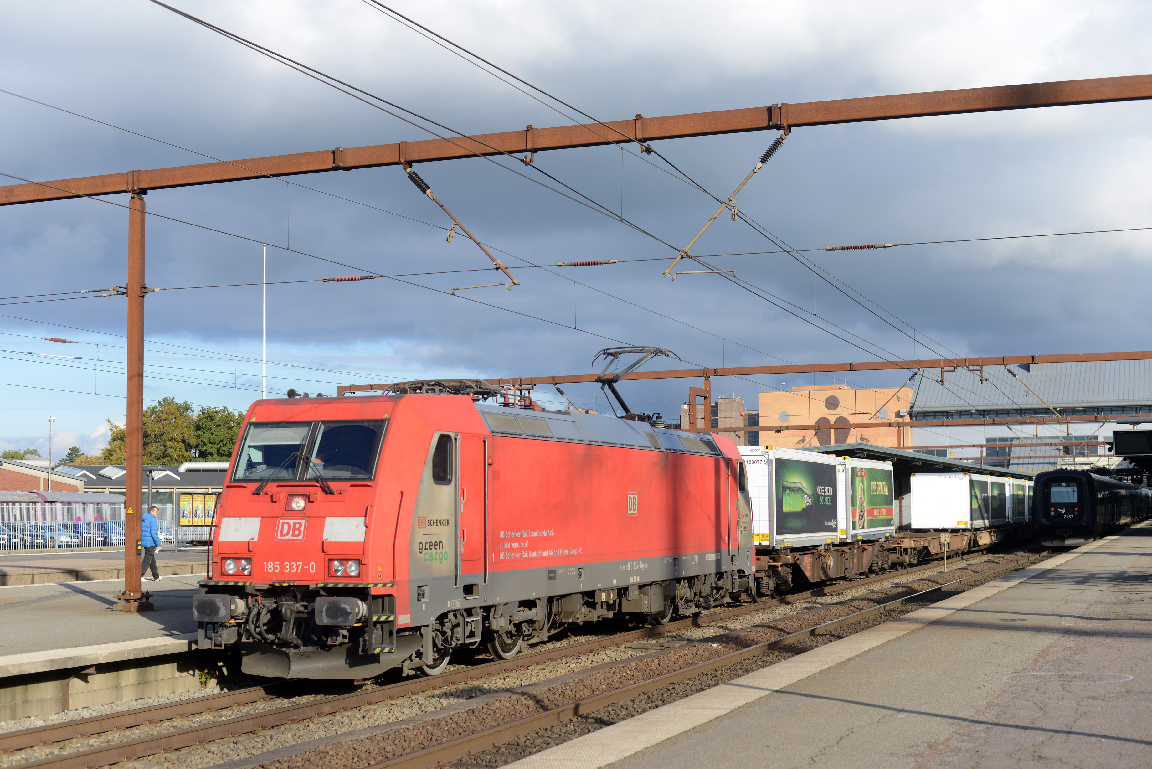 DB Schenker Rail Scandinavia 185 337-0 passing Odense hauling a train of empty beer bottles from Høje Tåstrup to Fredericia.